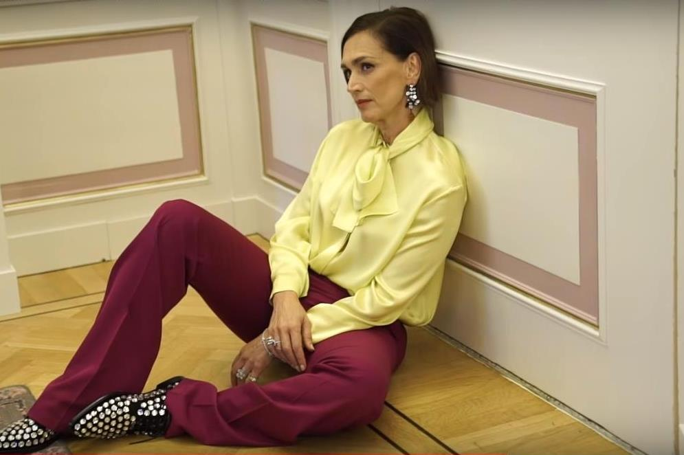 Monic Hendrickx